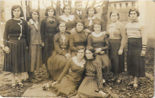 Members of the Jewish-Zionist Youth Group "Gordonia", Uhnow (Hivniv), Ukraine.